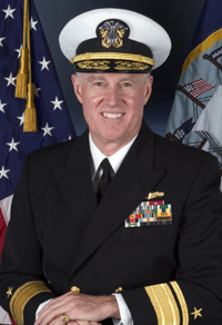 RADM William Van Meter Alford, Jr. from[1]